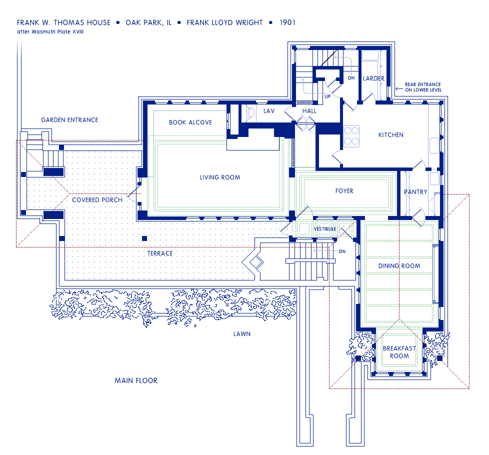 Plan of the main floor of the Frank W. Thomas residence, Oak Park IL, designed by Frank Lloyd Wright, 1901. After Wasmuth, Plate XVII.